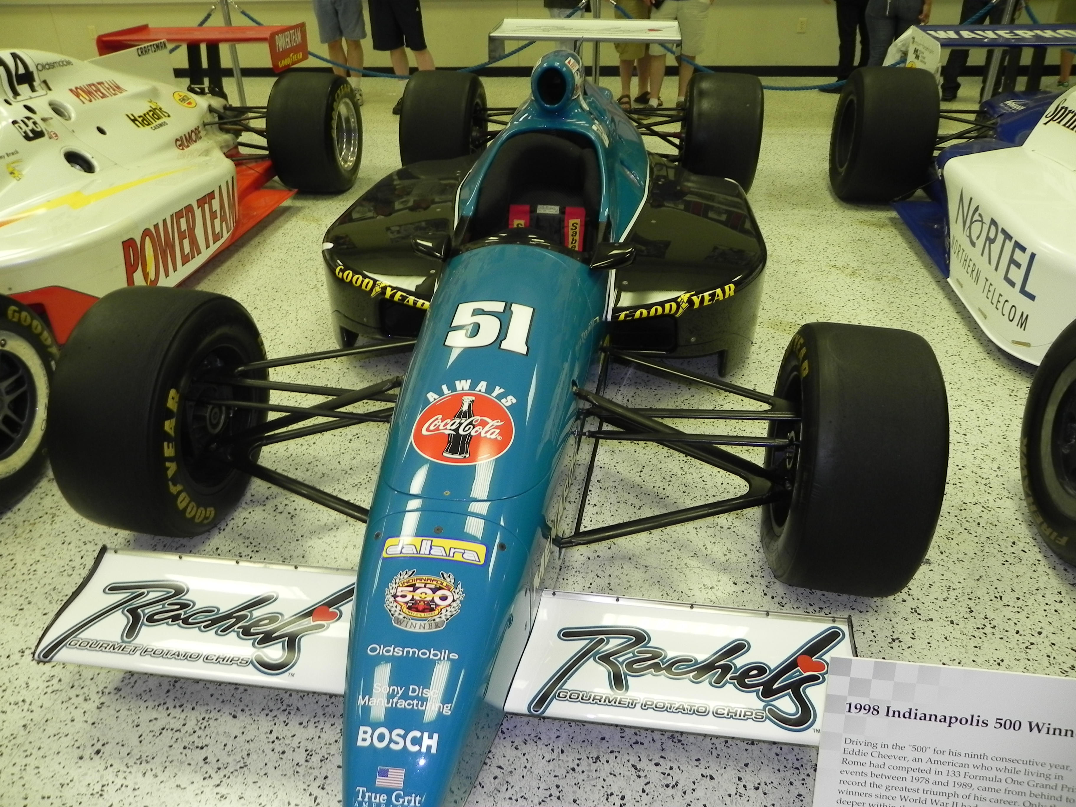 Image of the winning car of the 1998 Indianapolis 500 (Eddie Cheever). Photo was taken at the Indianapolis Motor Speedway Hall of Fame Museum, during the month of May 2011, at the 100th Anniversary "Ultimate Indianapolis 500 Winning Car Collection."